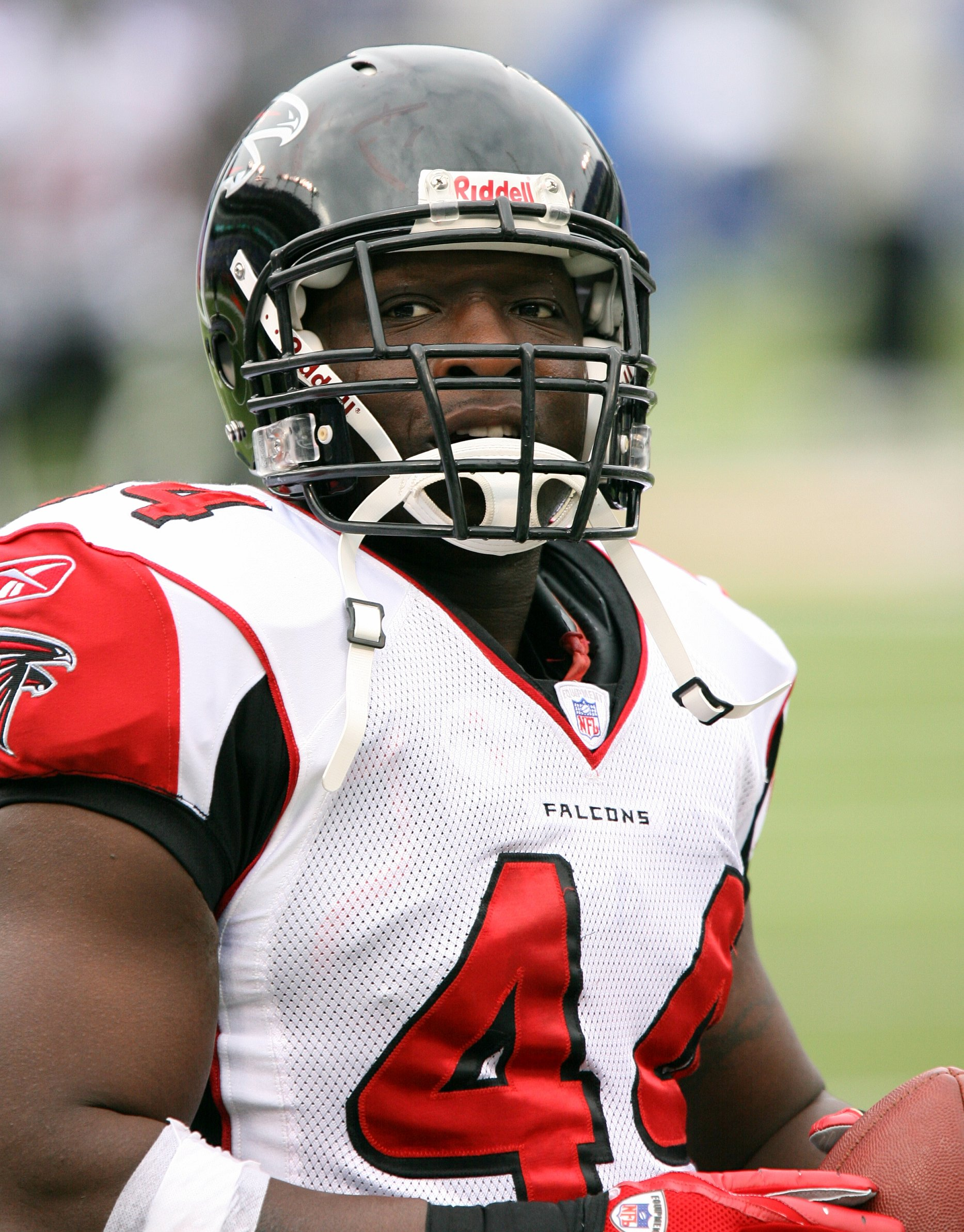 Atlanta Falcons fullback Fred McCrary at M&T Bank Stadium in Baltimore